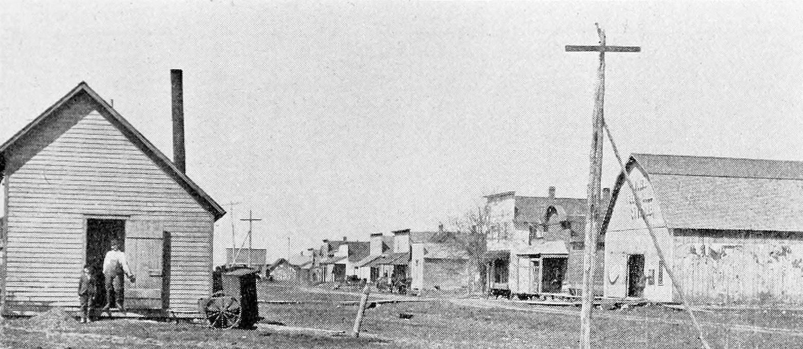 Main Street in Paxico, Kansas. Identifier: earlyhistoryofwa00thom Title: Early history of Wabaunsee County, Kansas, with stories of pioneer days and glimpses of our western border.. Year: 1901 (1900s) Authors: Thomson, Matt Subjects: Wabaunsee County (Kan.) -- History Publisher: Alma, Kansas Text Appearing Before Image: VOLLAND STATION. Seven miles southwest of Alma. Text Appearing After Image: MAIN STREET, PAXICO. EARLY HISTORY OF WABAUNSEE COUNTY, KAN.